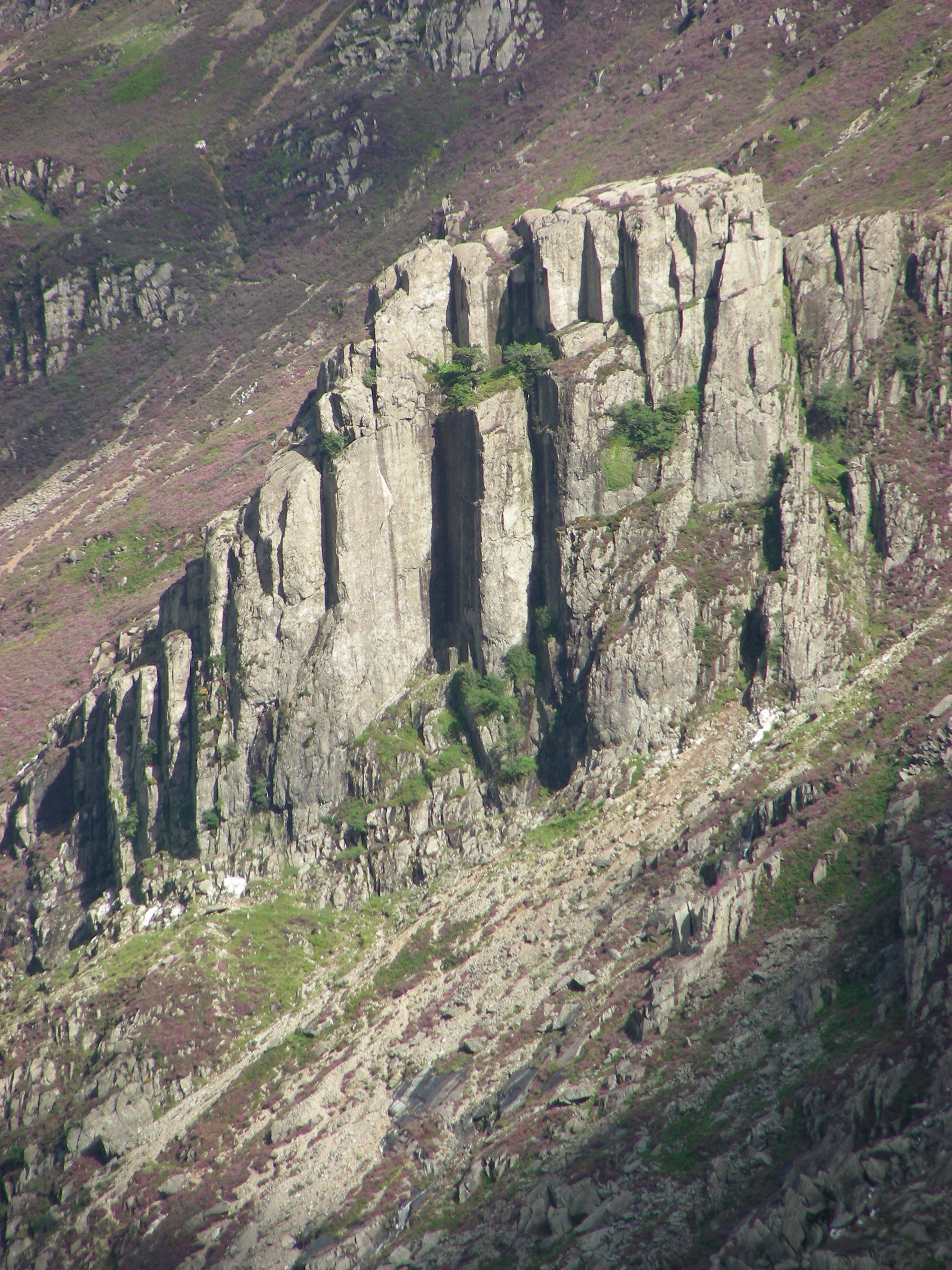 Dinas Cromlech, seen from somewhere on the Pyg track